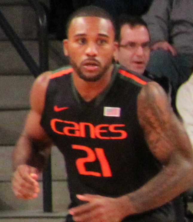 Erik Swoope in 2013, as a member of the Miami Hurricanes Men's Basketball team.